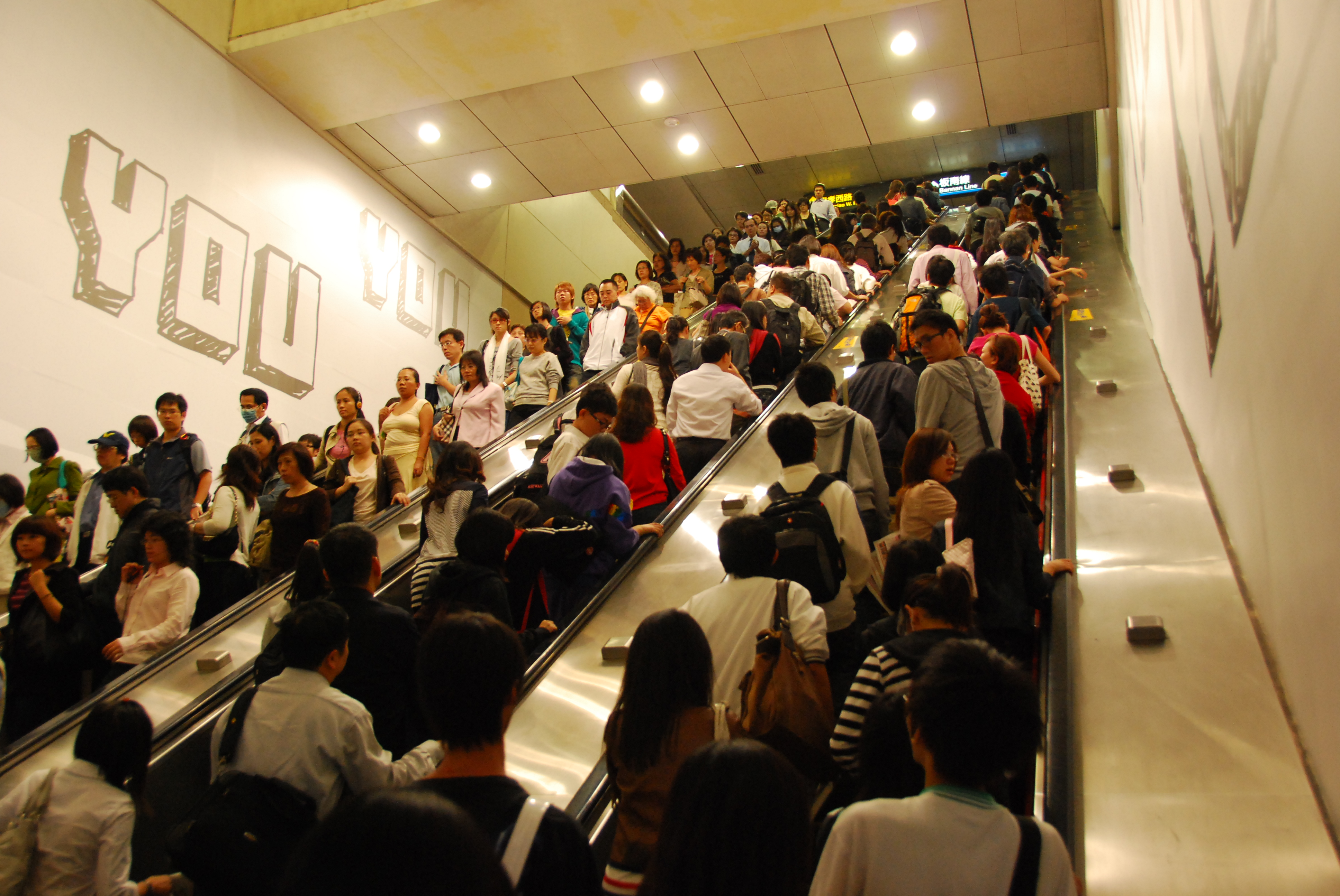 Escalators connecting the Danshui Line Platform and the concourse in Taipei Station